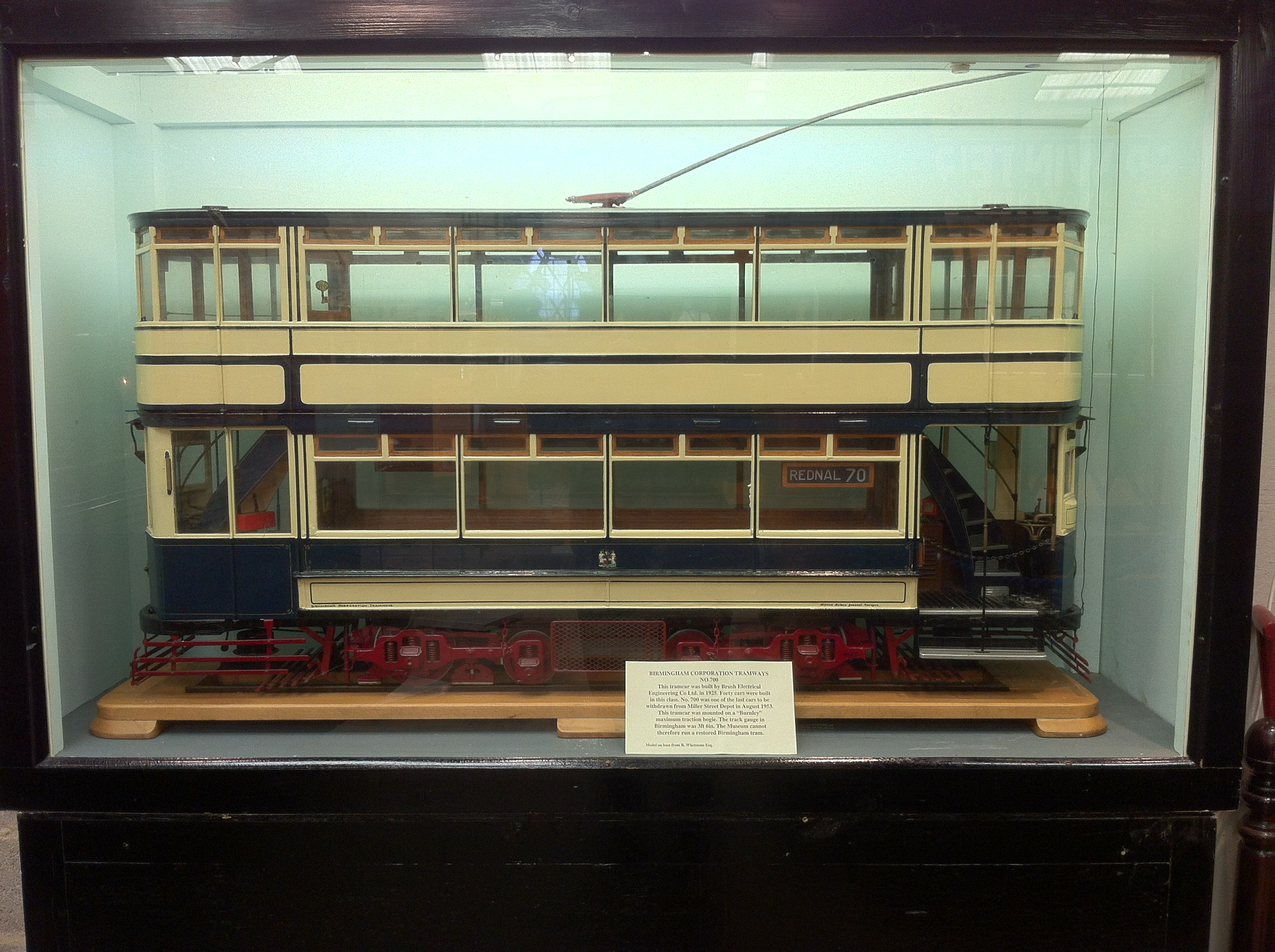 Model of Birmingham Corporation Tramways 700 at the National Tramway Museum